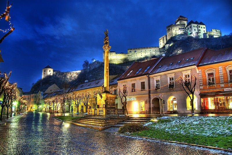 A picture of Trenčín town with Trenčín Castle, Slovakia, HDR photo